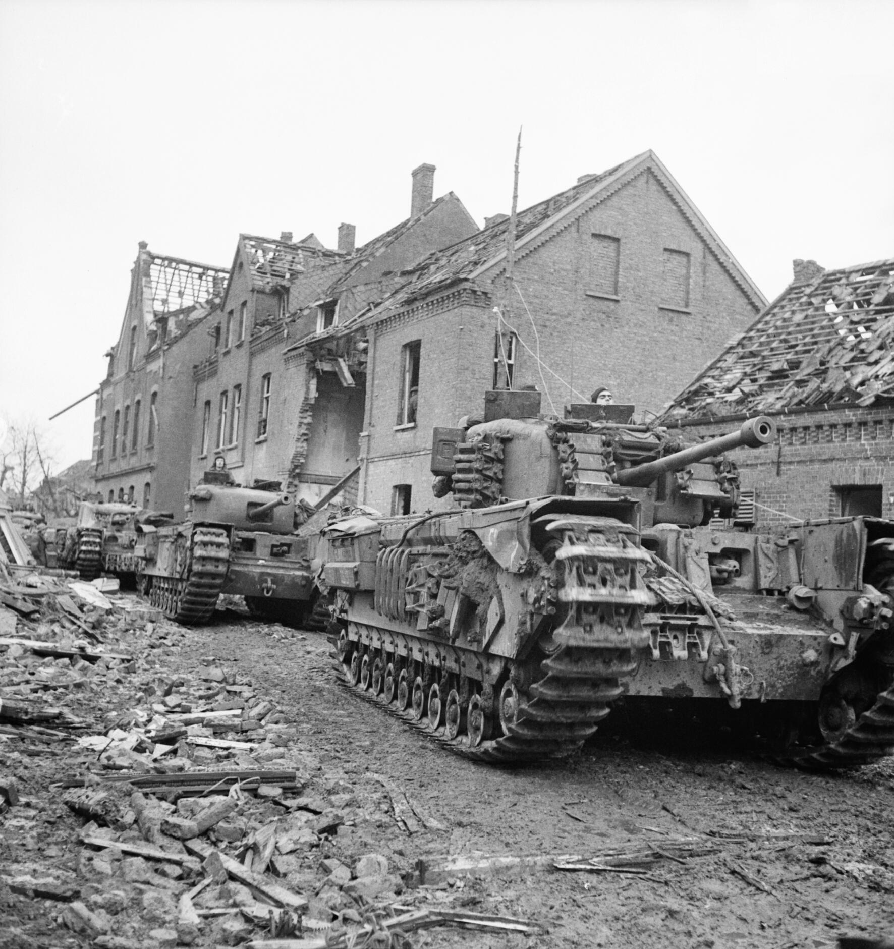 Churchill tanks drive along a badly damaged street in Kleve, Germany, 12 February 1945. Churchill tanks drive along a badly damaged street in Kleve, Germany, 12 February 1945.